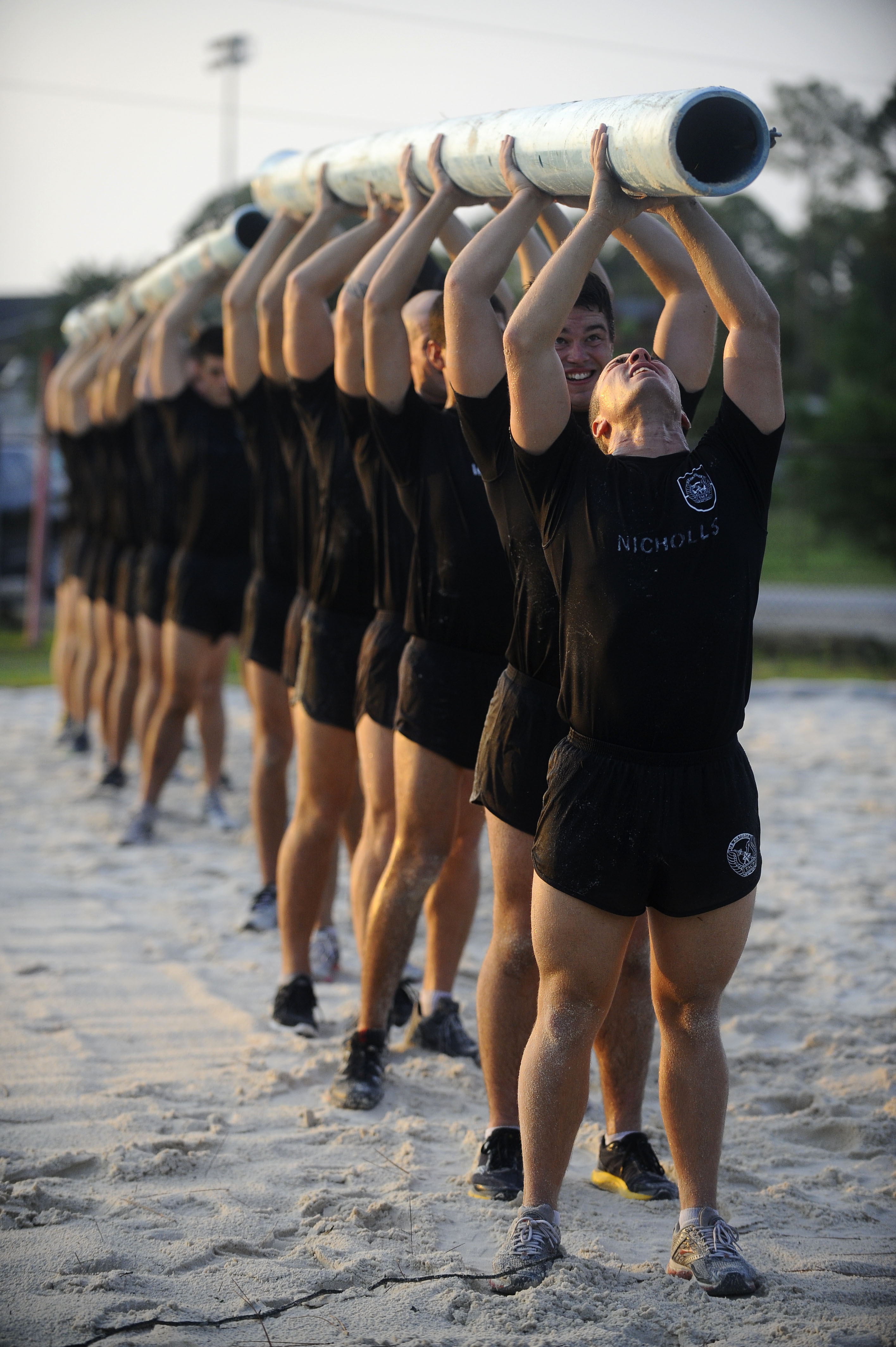 U.S. Air Force Tactical Air Control Party candidates raise a pole during a team building exercise at Hurlburt Field, Fla., Aug. 10, 2011. The pole weighs approximately 300 pounds, therefore requiring all of the full strength of the candidates to complete such a rigorous task. 1st Special Operations Wing Public Affairs Photo by Airman Gustavo Castillo Date Taken:08.10.2011 Location:HURLBURT FIELD, FL, US Related Photos